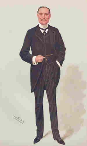 Caricature of Sir Melville MacNaghten (1853–1921). Caption read "Scotland Yard".